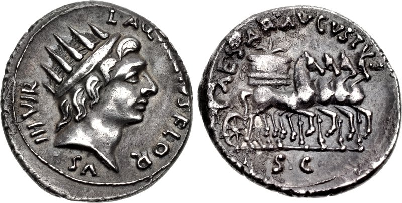 Augustus. 27 BC-AD 14. AR Denarius (18.5mm, 3.85 g, 9h). Rome mint; L. Aquillius Florus, moneyer. Struck 19/8 BC. L • AQ[VILLIV]S • FLOR VS • III VIR, radiate head of Sol right / CAESAR • AVGVSTVS above, S • C • in exergue, slow quadriga right with modius-shaped car in which is a flower. RIC I 303; RSC 357; BMCRE 38 = BMCRR Rome 4543; BN 169-71. Good VF, dark gray cabinet tone, shallow scratch on obverse and some deposits under tone. Rare. From the V. Robert Chiodo Collection. Ex Coin Galleries (6 November 1996), lot 406; Lanz 28 (7 May 1984), lot 403; V.C. Vecchi 10 (10 October 1983), lot 289.